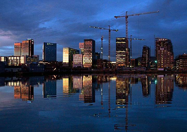 The rising skyline of Bjørvika, close to the new opera